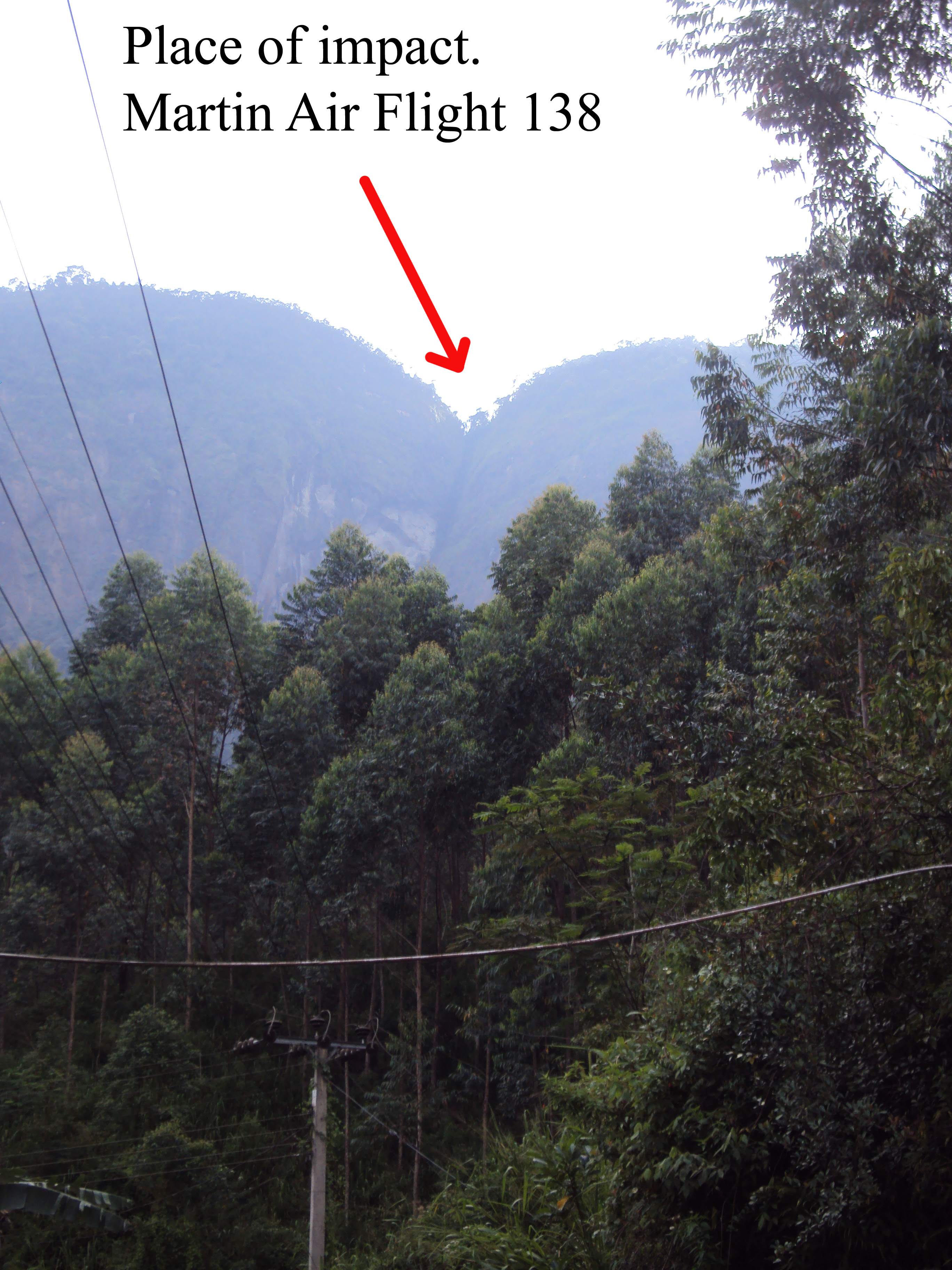 This is the crash location of Martin Air Flight 138 according to locals. The plane crashed onto the Seven Virgin Hills in Maskeliya. According to locals, this is the location of the crash.